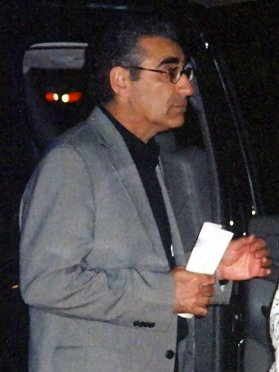 Eugene Levy at the 2005 Toronto Film Festival